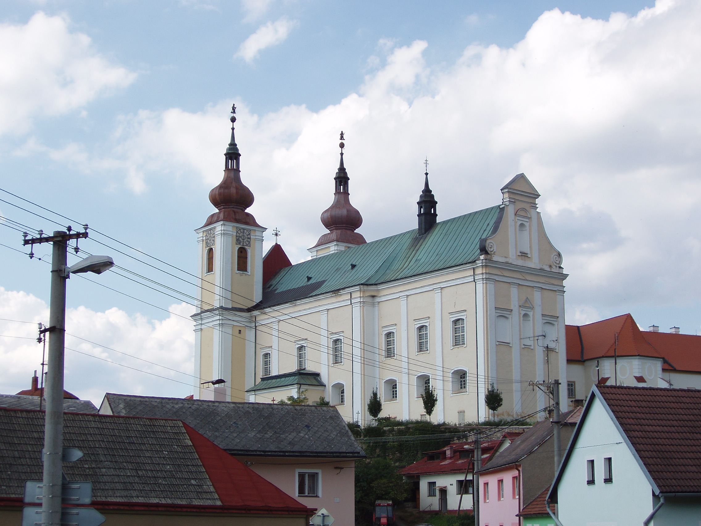 St. Peter and Paul church of the Nová Říše monastery as seen from southeast